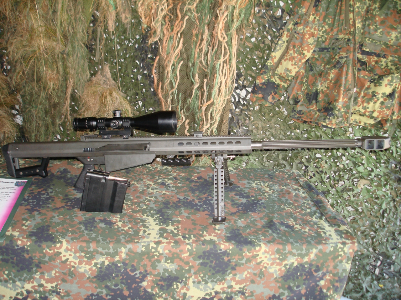 G82 (M107 with a Zeiss 6-24x72 telescopic sight) of the German Army